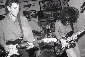 Mark Sandman, Frank Swart & Dominique Zar playing at the Plough and Stars in Cambridge, Massachusetts in 1991. Photo credit Dennis Stein